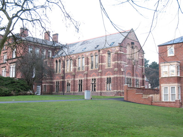 Former College buildings. Ripon, Yorkshire, Great Britain. Part of the former College of Ripon and York St John, which was a teacher training college for many years. The building has now been converted to apartments. This wing looks suspiciously like a former chapel.